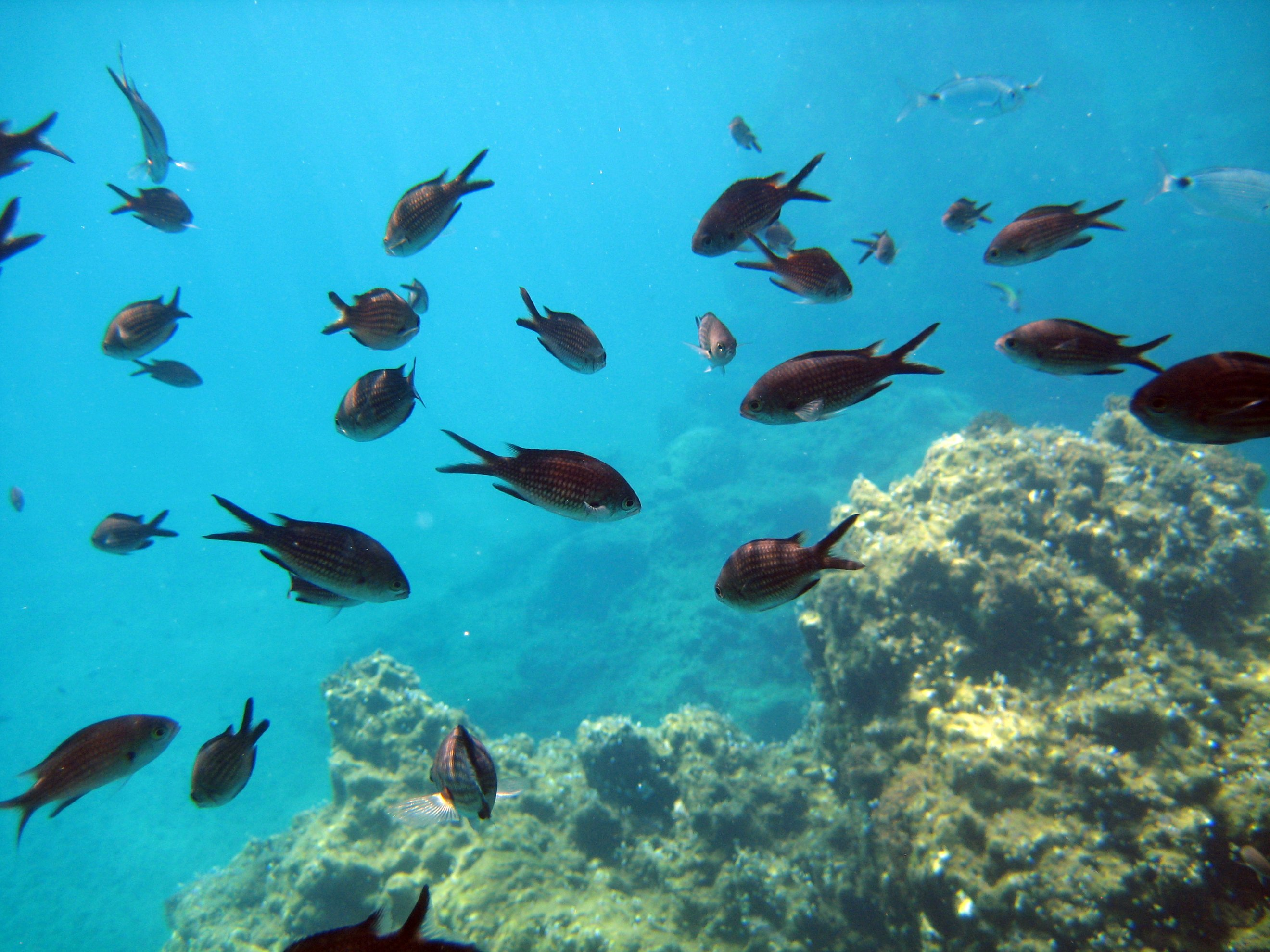 Chromis chromis and mystery blue fish